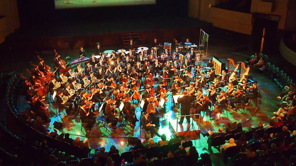 António Saiote conducts ESMAE Symphonic Orchestra.